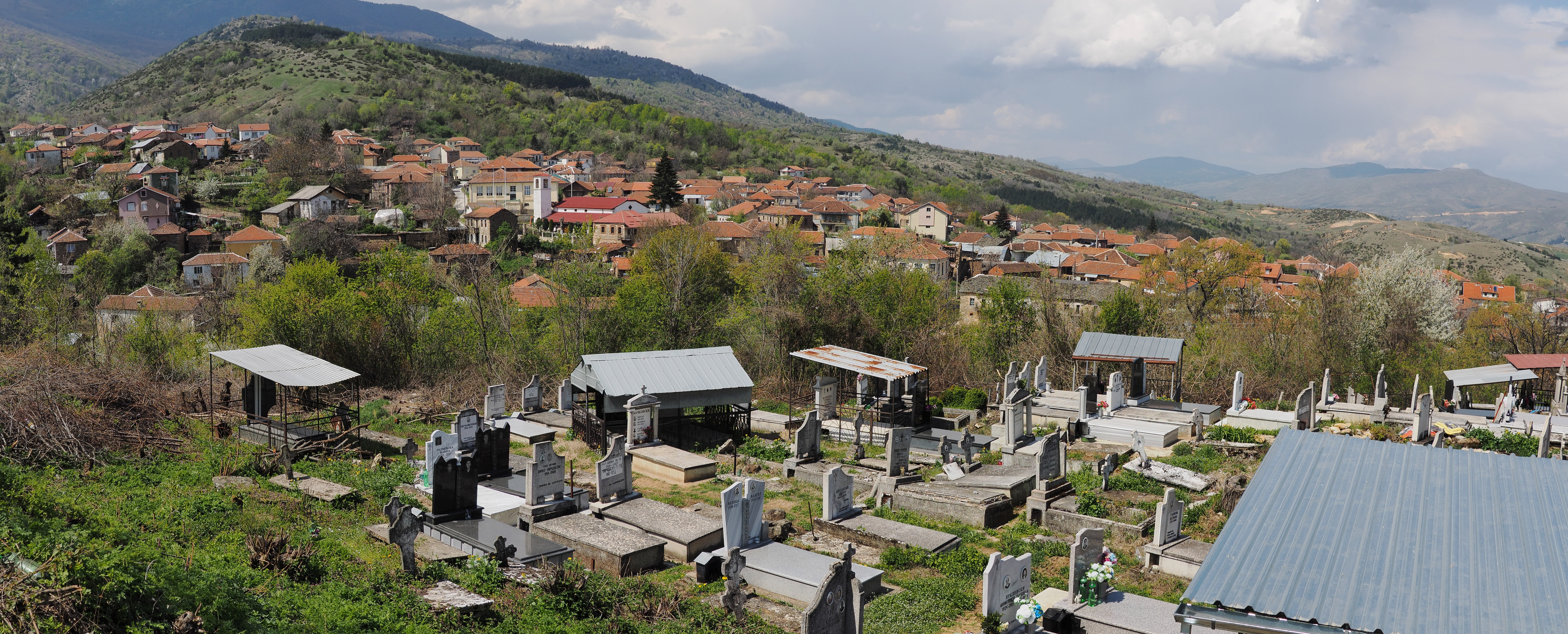 Bukovo village (Bitola), Macedonia Српски (ћирилица): Буково код Битоља, Македонија